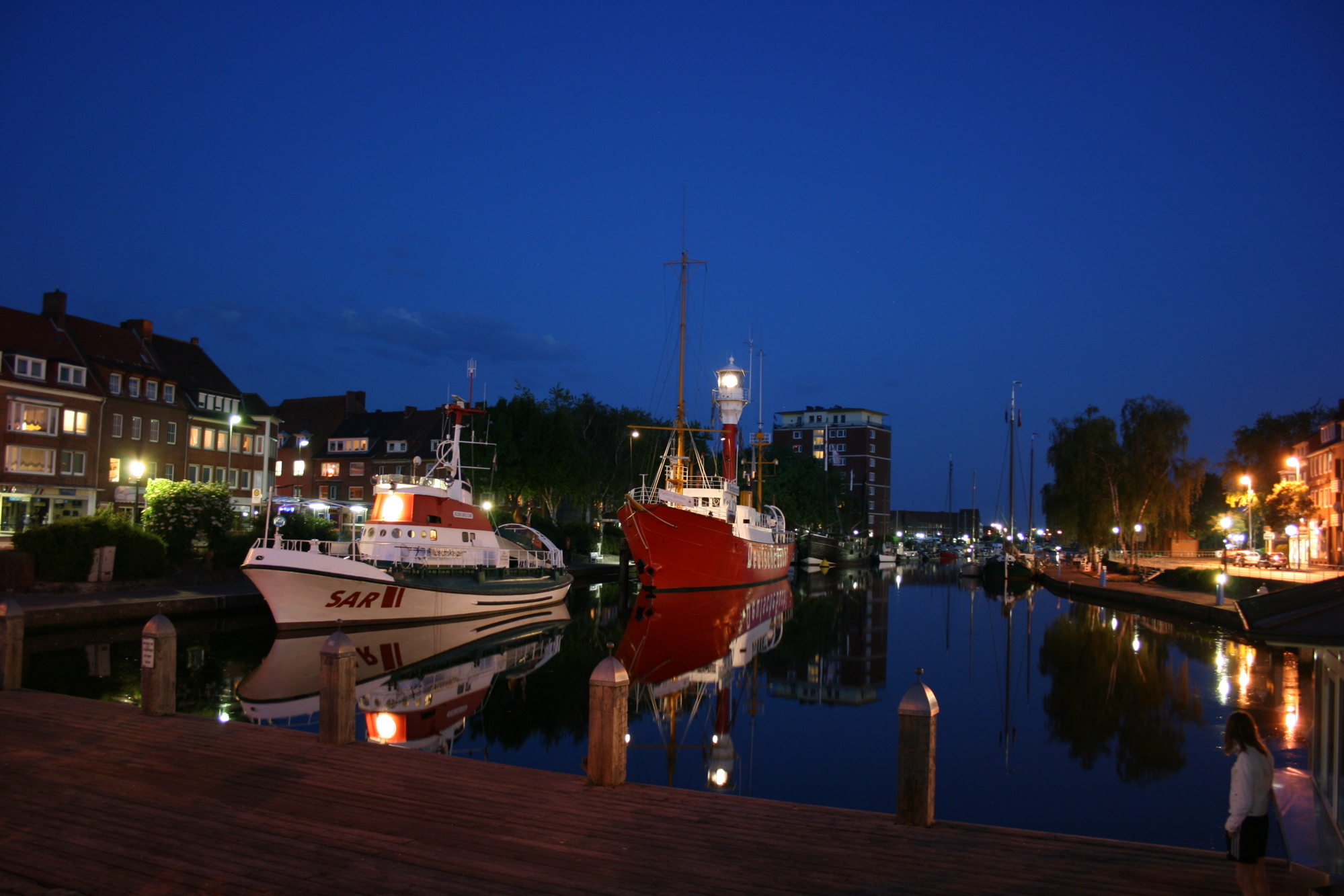 View on the Ratsdelft (part of the harbour in Emden (East Frisia))